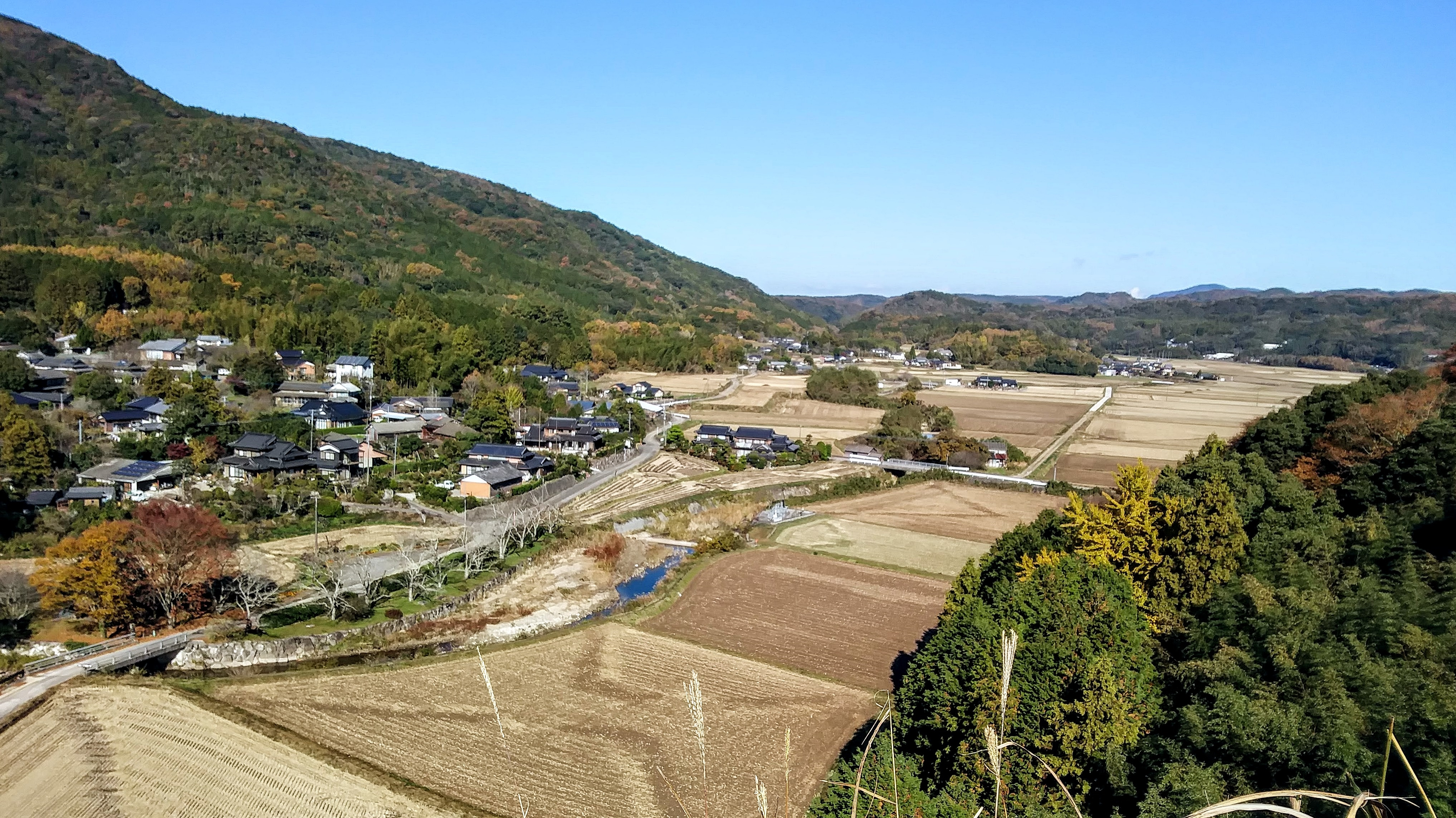 Tashibu no Sho landscape, down valley